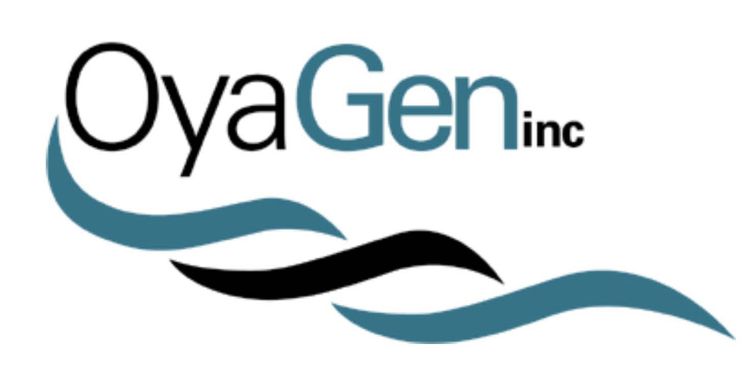 OyaGen logo